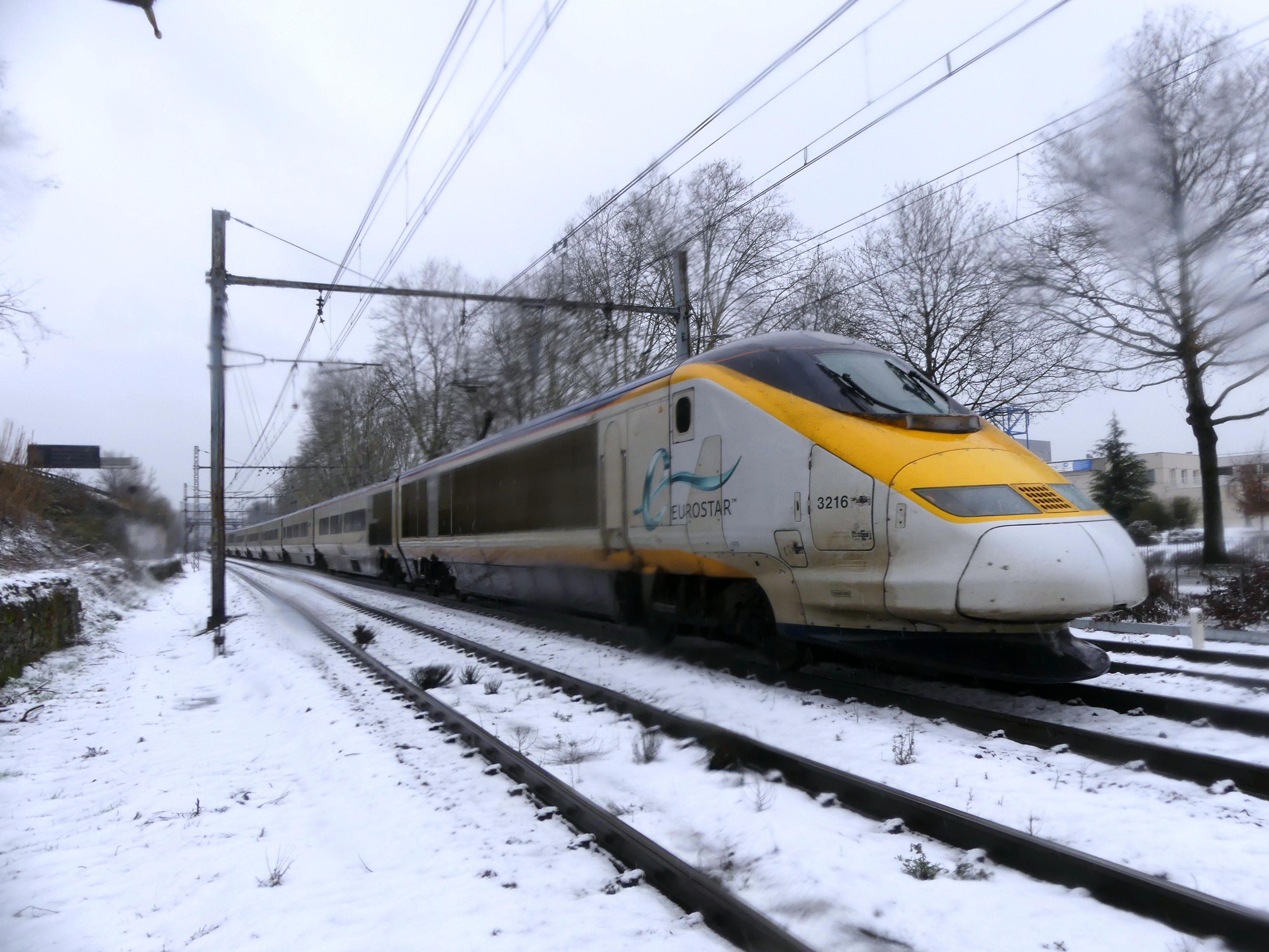 Sight of the Eurostar high speed train, on weekly winter service from Bourg-Saint-Maurice in the French Alps to London, leaving Chambéry (Savoie) under snow.